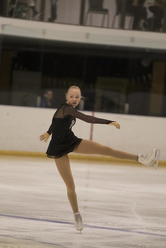 Aldís Kara at Icelandic Nationals 2019